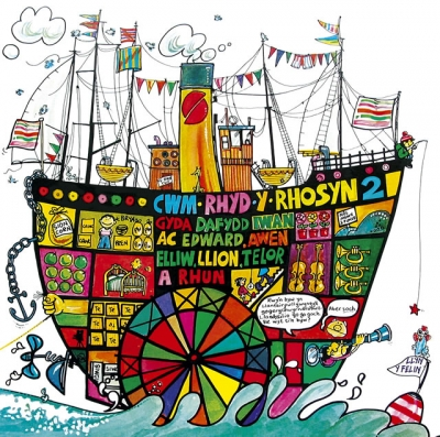 Artwork for the Album Rhyd by Cwm